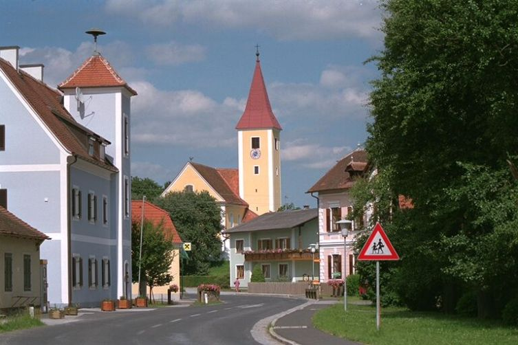 View of Uebersbach or Übersbach, Styria